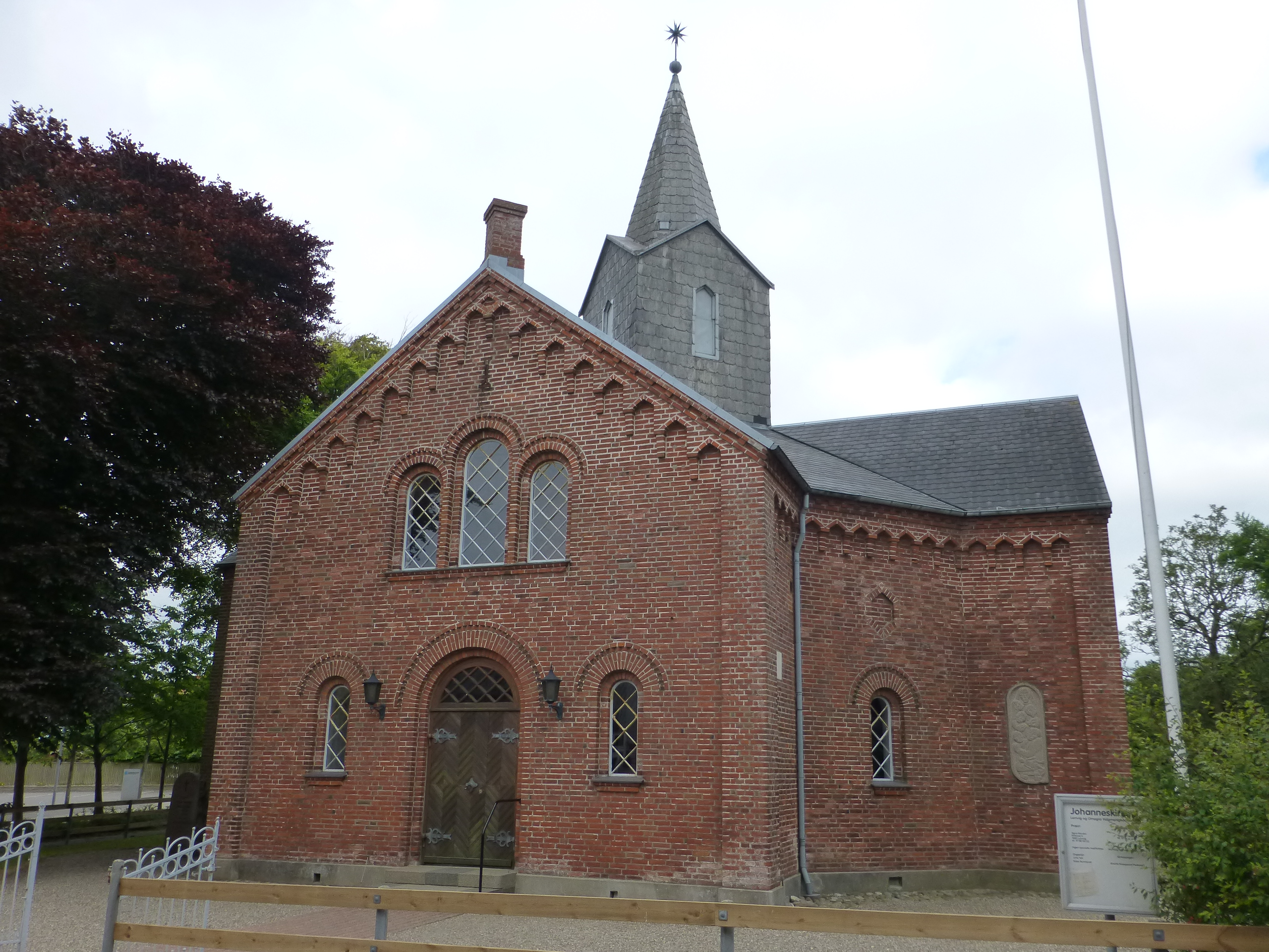 The church Johanneskirken belonging to Lemvig og Omegns Valgmenighed in Lemvig in Denmark.